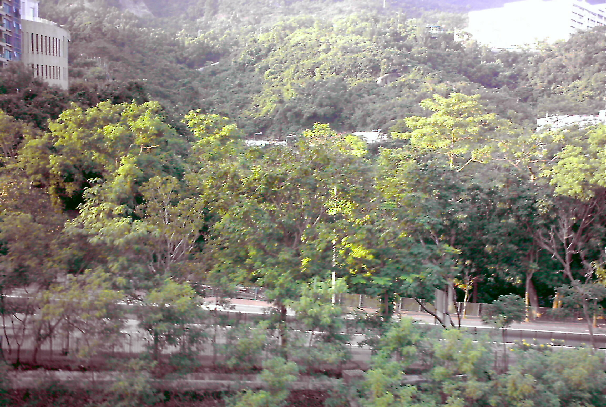 Siu Sai Wu, a bird view from the heights, Cornwall Street, Kowloon 中文（香港）: 九龍塘筆架山小西湖：從哥和老街公園壁球及乒乓球中心頂層遠眺被叢林包圍的小西湖。